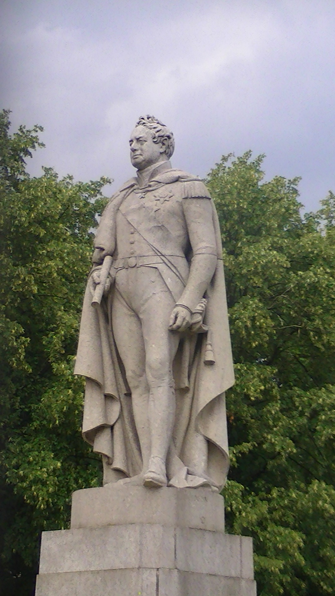 Statue of William IV of Great Britain, Greenwich Park, London by Samuel Nixon (sculptor)